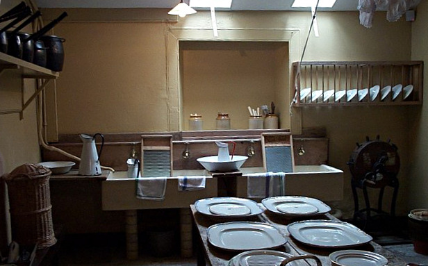 Scullery of Brodick Castle, Isle of Arran